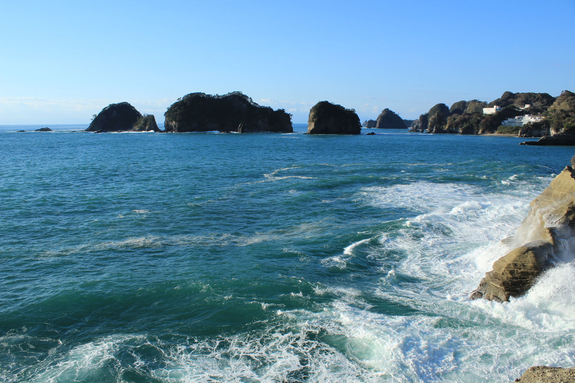 Sanshirojima as seen from southeast in Nishiizu, Shizuoka Prefecture, Japan. Sanshirojima is a generic name for plural ilands.